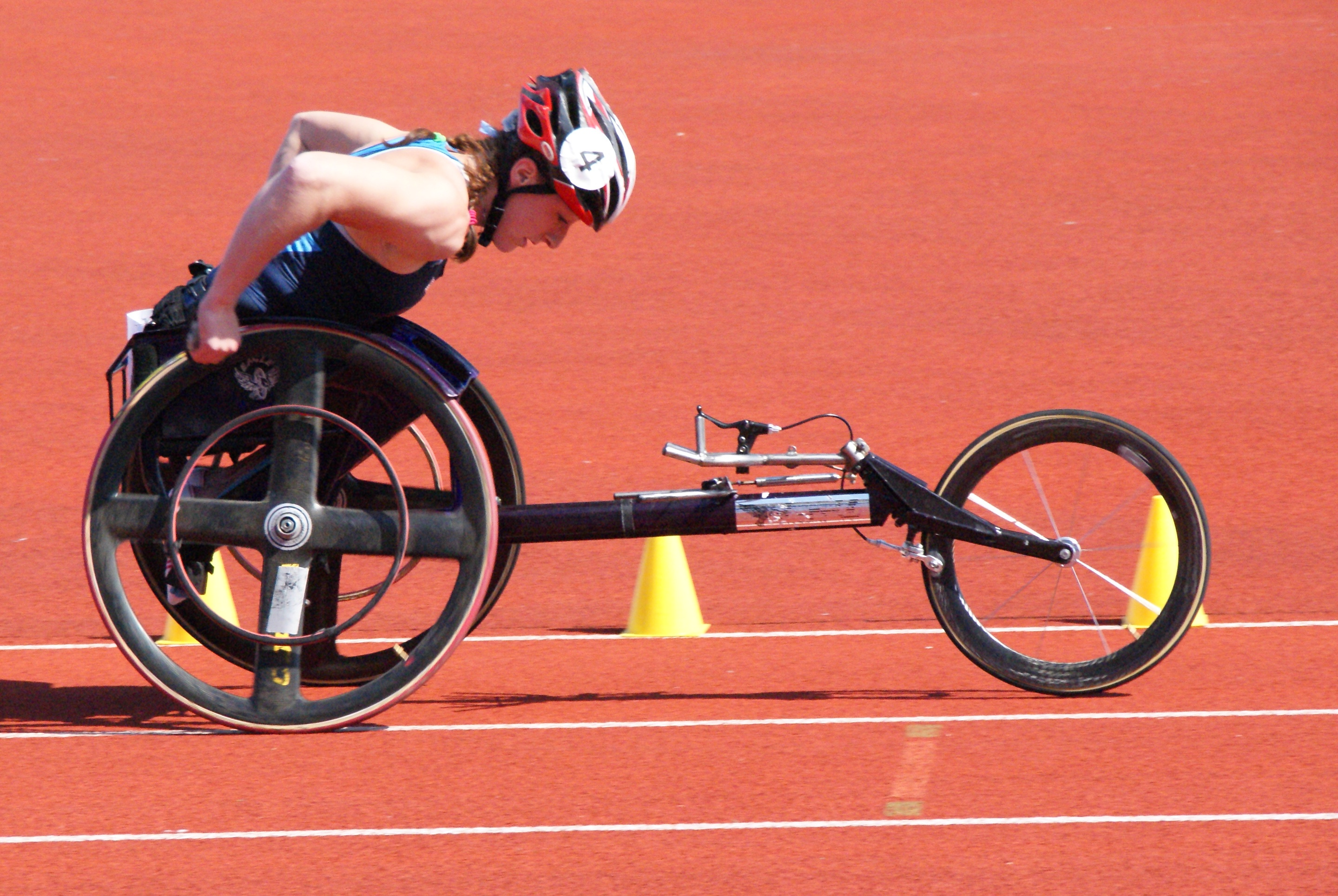 Russian American racer Tatyana McFadden in her racing wheelchair at the BT Paralympics World Cup 2009.